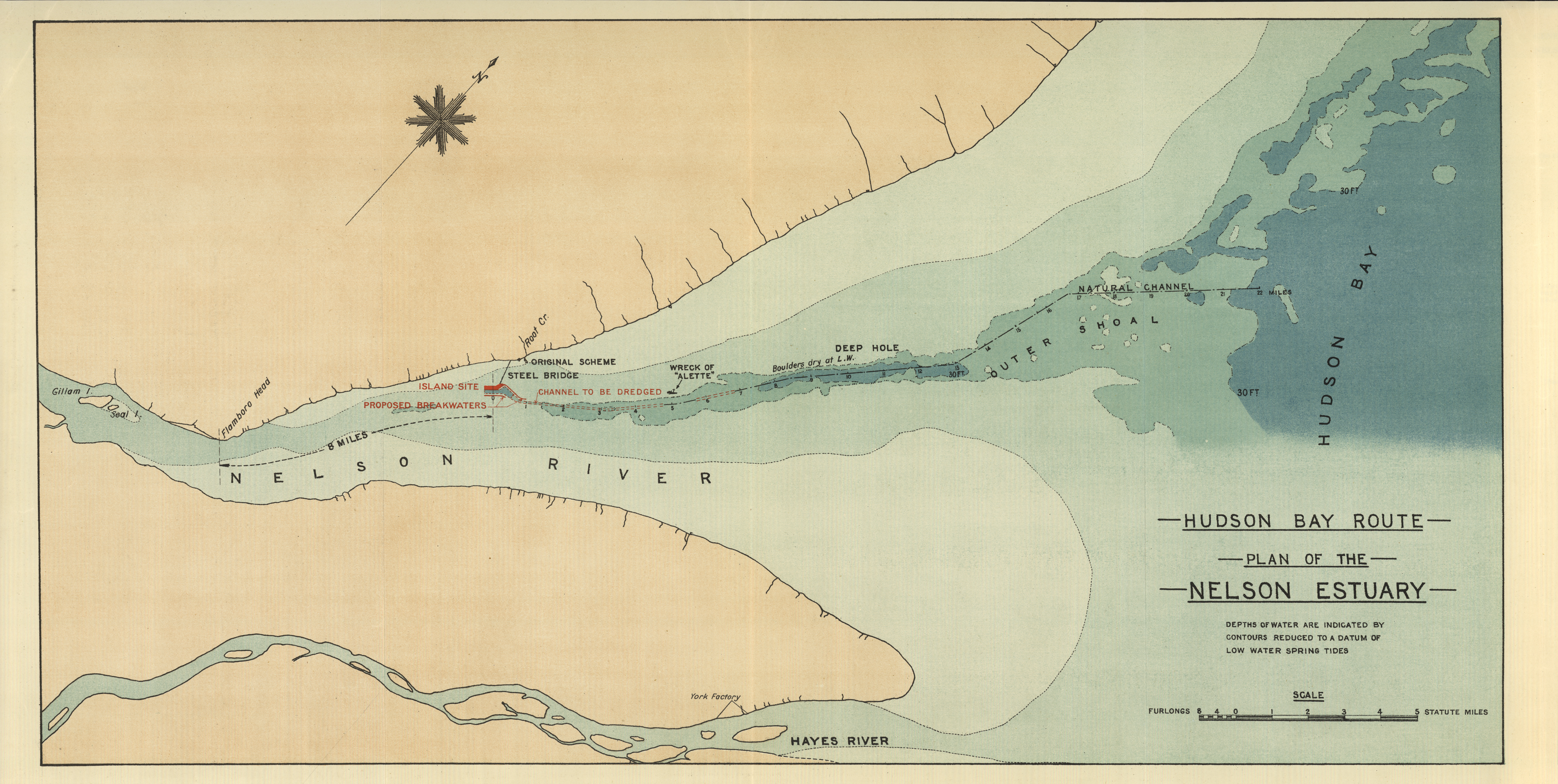 Palmer, F. Hudson Bay Route Plan of the Nelson Estuary [map]. 1:35,640. In: F. Palmer. Report on the Section of a Terminal Port for the Hudson Bay Railway. London: Harrison & Sons, Ltd., 1927. Depths of water are indicated by contours reduced to a datum of low water spring tides Report submitted to Charles A . Dunning, Minister for Railways and Canals, Government of Canada Image Courtesy of University of Manitoba : Archives & Special Collections